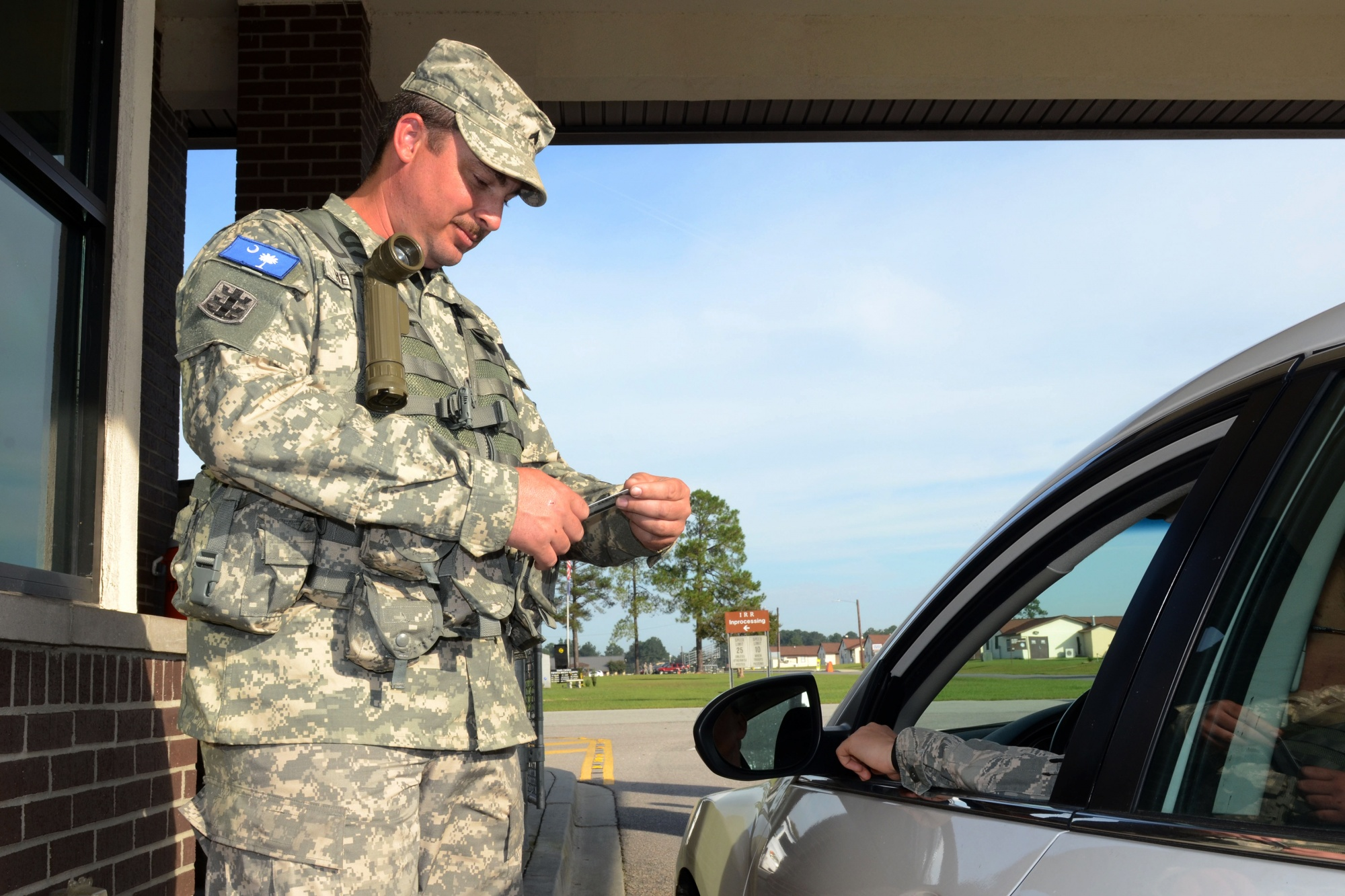 U.S. Army Cpl. Paul Herring, a security augmentee assigned to the 3rd Battalion, 1st Brigade of the South Carolina State Guard, has been state-activated to guard the front gate at McCrady Training Center, S.C., after the S.C. flood, Oct. 9, 2015. “I like continuing to serve and the opportunity to keep doing my part,” said Herring. The South Carolina National Guard has been activated to support state and county emergency management agencies and local first responders as historic flooding impacts counties statewide. Currently, more than 2,600 South Carolina National Guard members have been activated in response to the floods. (U.S. Air National Guard photo by Airman Megan Floyd/Released)